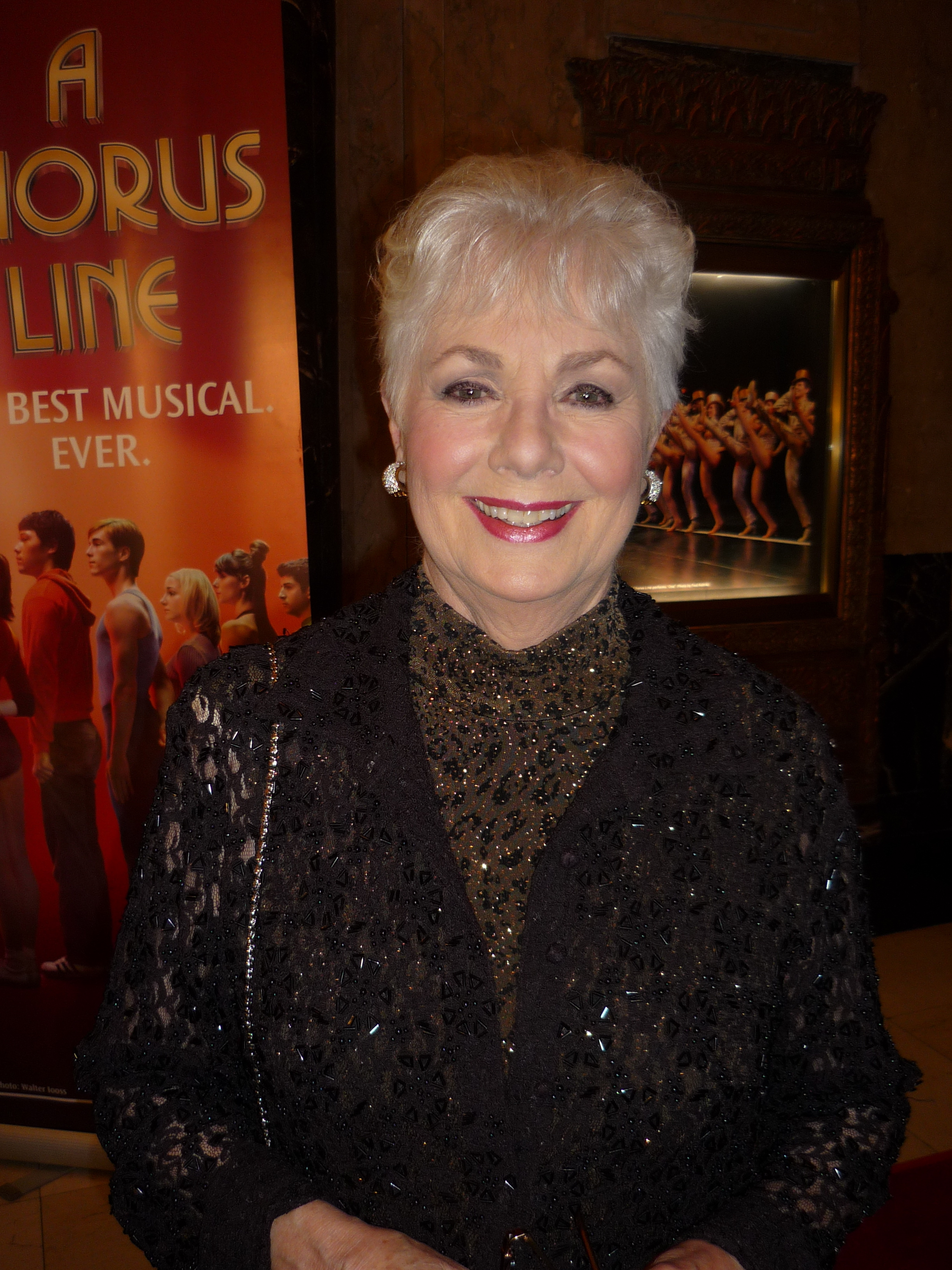 Actress Shirley Jones.